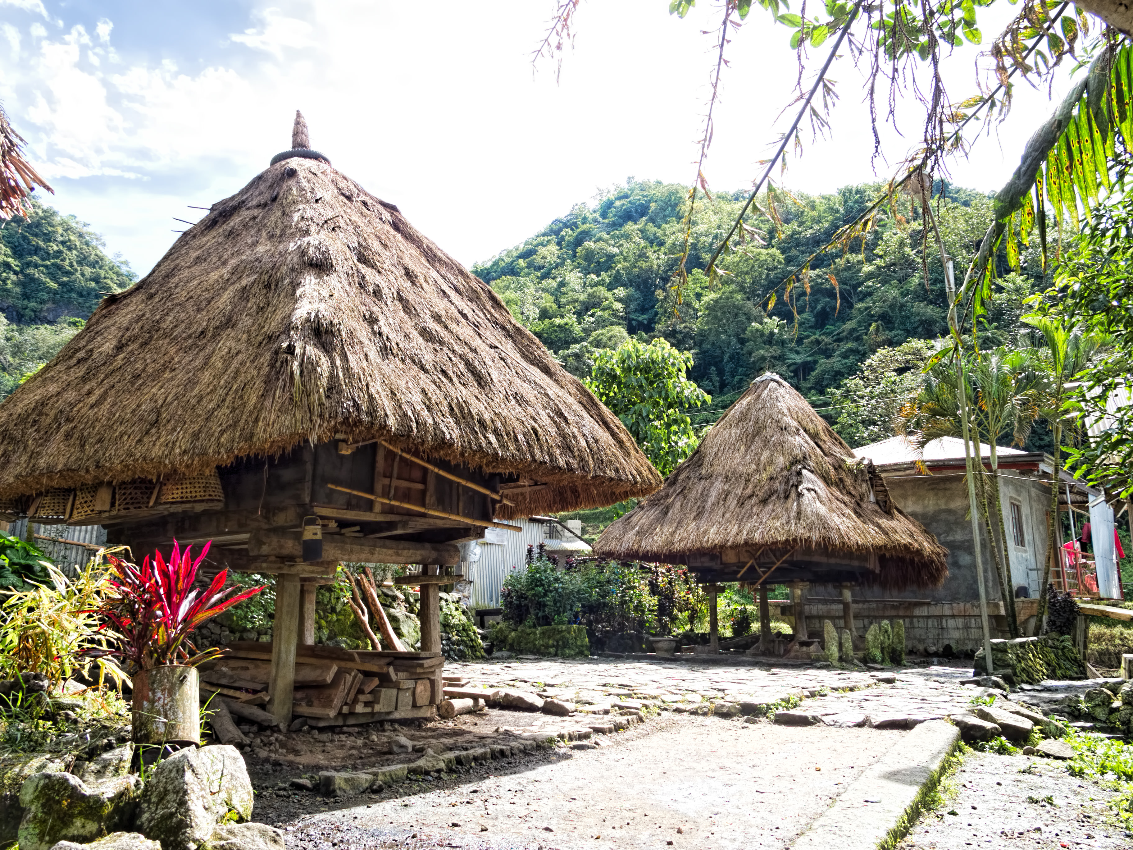 Traditional stilt houses with pyramid-shaped thatched roofs in the village of Bangaan (pronounced ‘bahn-GAH-ahn’) at the base of rice terraces. The area under the house is the living area while the house itself is used for sleeping and to store rice in the attic. The ladder is kept off the ground when not in use in order to keep rats from getting to the rice. For two thousand years, the Ifugao ethnic group has created rice terraces on the steep slopes of the Cordillera Central mountain range in the north-central part of the northern island of Luzon. (Manila is in southern Luzon.) Communal effort is required to build and maintain the stone or earthwork walls that form terraced pond fields. They are fed by intricate irrigation systems which harness water from the forests of the mountain tops. Individual terraces are privately owned, however, in accordance with tribal law and ancestral rights. Pest control is natural using various herbs in conjunction with religious rituals. The rice is used to feed the community, not to sell. The Rice Terraces of the Philippine Cordilleras were declared a UNESCO World Heritage Site in 1995. On Google Earth: Bangaan 16°54'38.52"N, 121° 7'34.96"